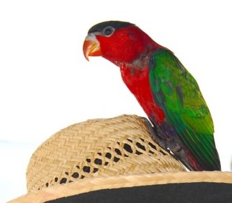 Purple Bellied Lory (Lorius hypoinochrous) perching on a sun hat.